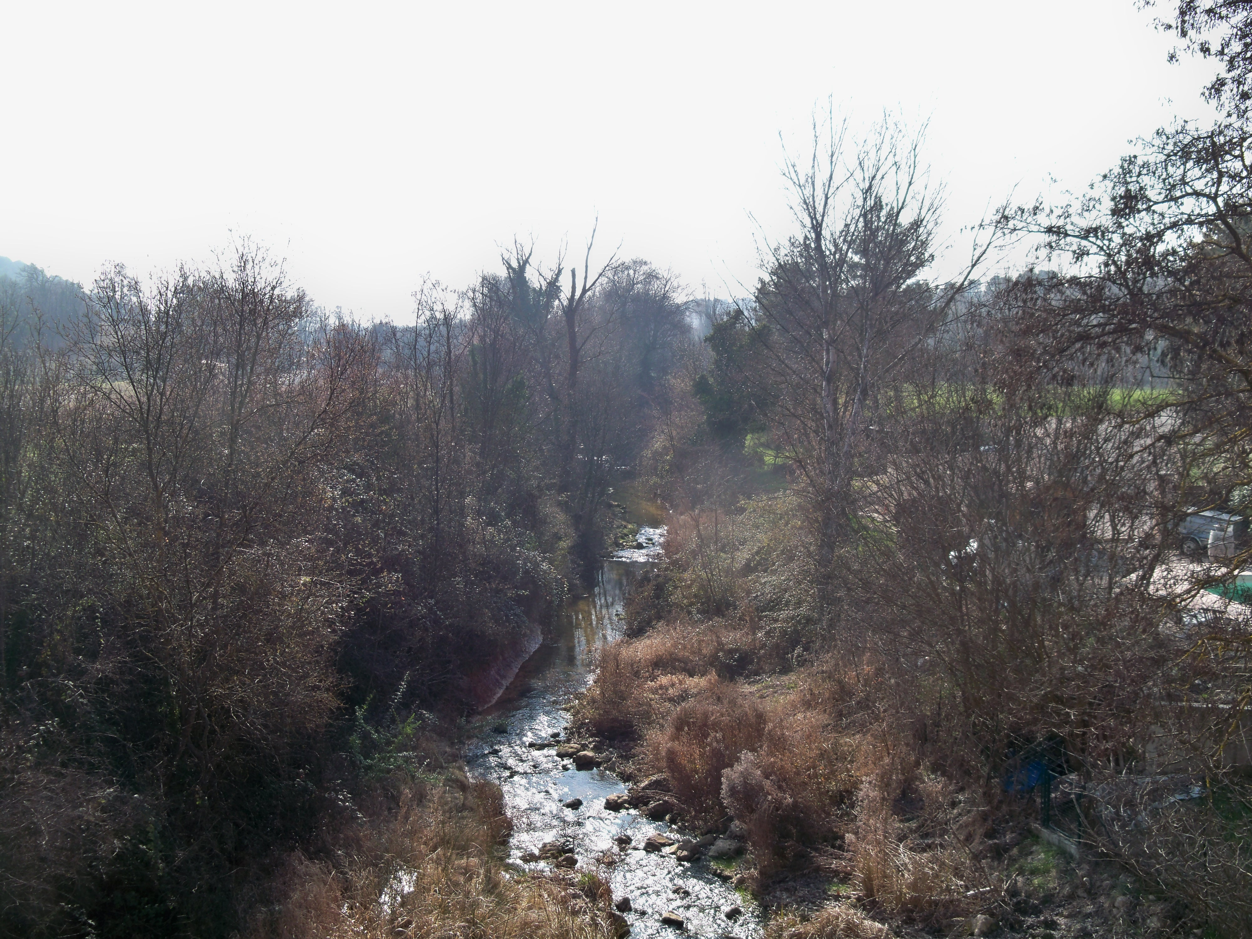 Eze river in Grambois